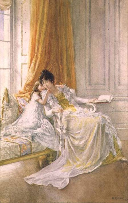 BAL16308 Mother and Child by Gow, Mary (1851-1929) Victoria & Albert Museum, London, UK English, out of copyright